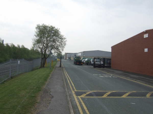 Ex GWR workshop site Dunstall Hill Industrial Estate occupies the site of the former GWR Stafford Road Works. The works originally built locomotives until production was transferred to Swindon in 1908 but it remained an important railway workshop for heavy repairs and maintenance. The works eventually closed in the Beeching era.